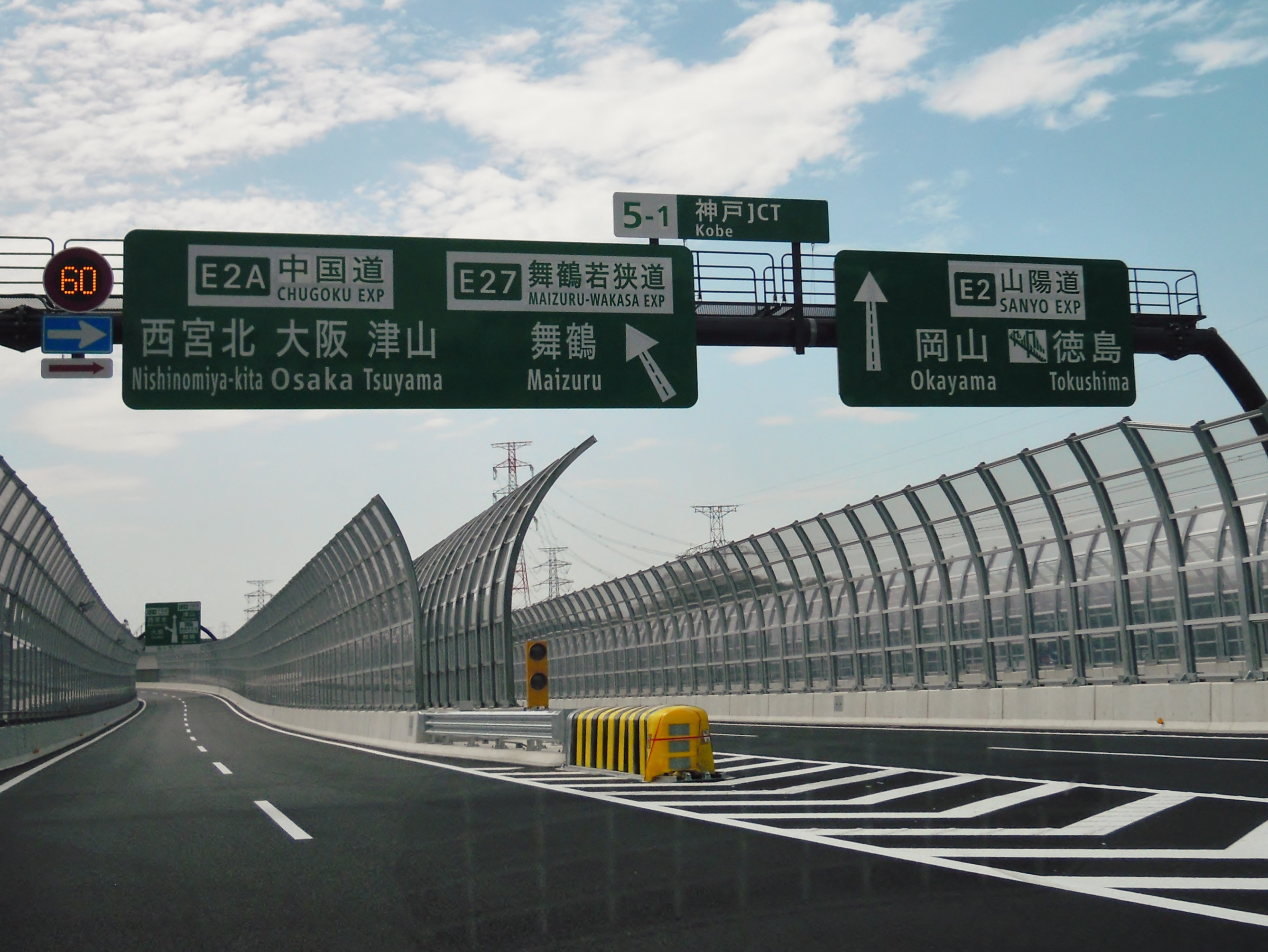 This picture is Kobe junction seen from Shin-meishin Expressway.